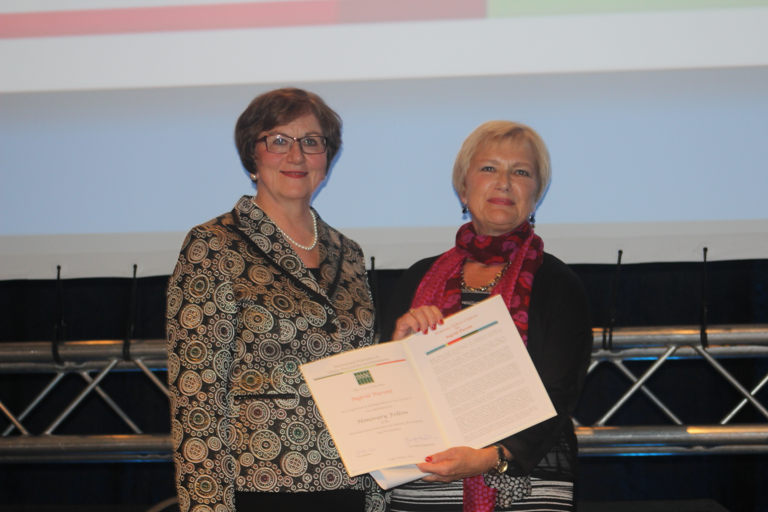 IFLA President Sinikka Sipilä & Ingrid Parent at the Closing Sessionphoto: Vincent Voegt